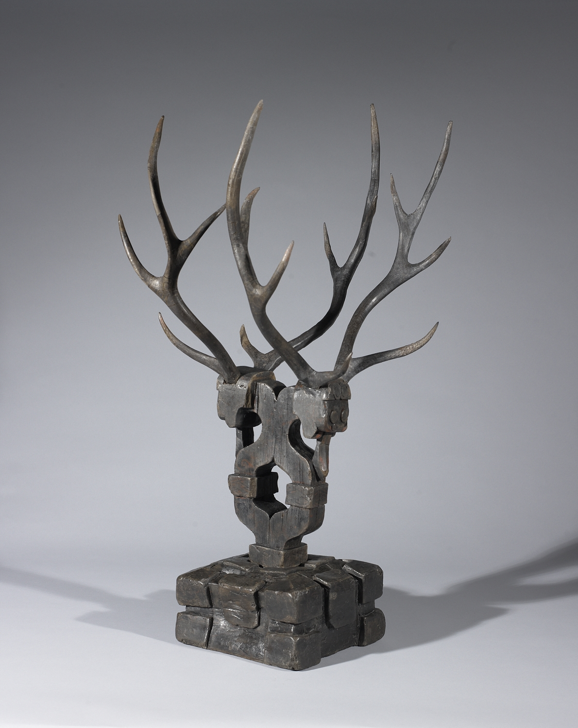 A Chinese tomb guardian usually placed inside the doors of the tomb to protect or guide the soul.